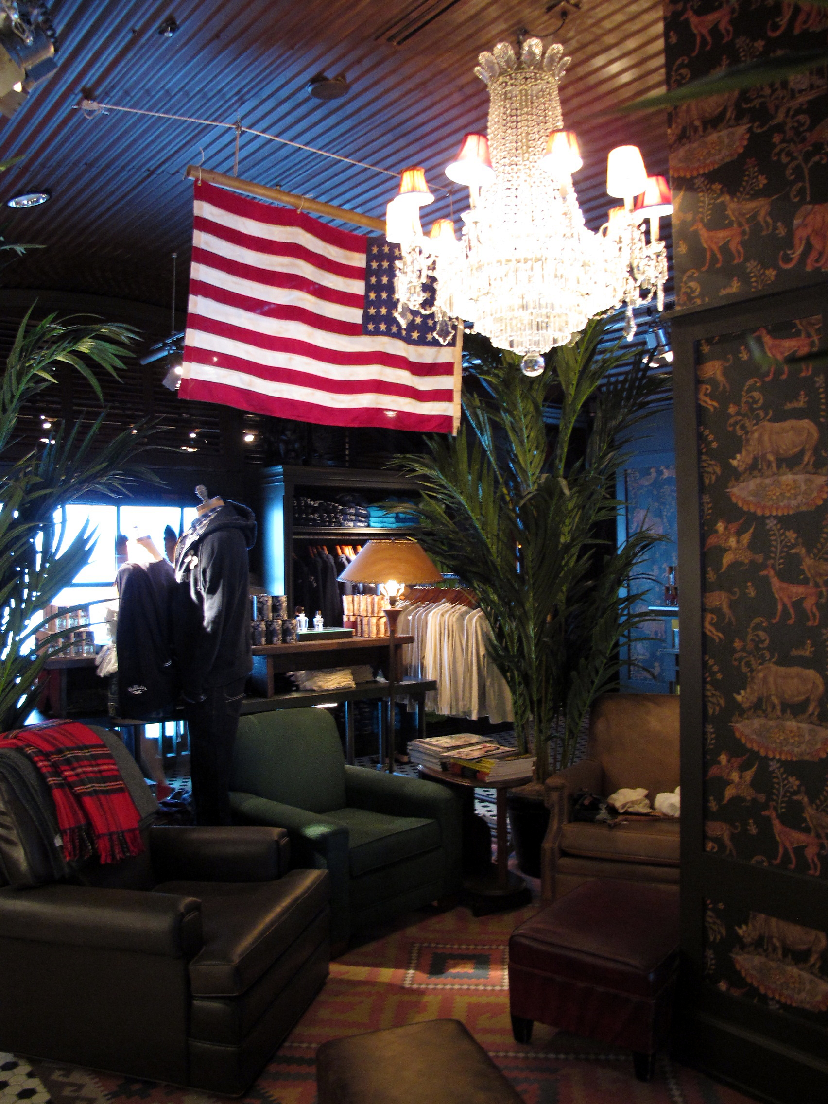 Hollister Co Festival Walk Interior